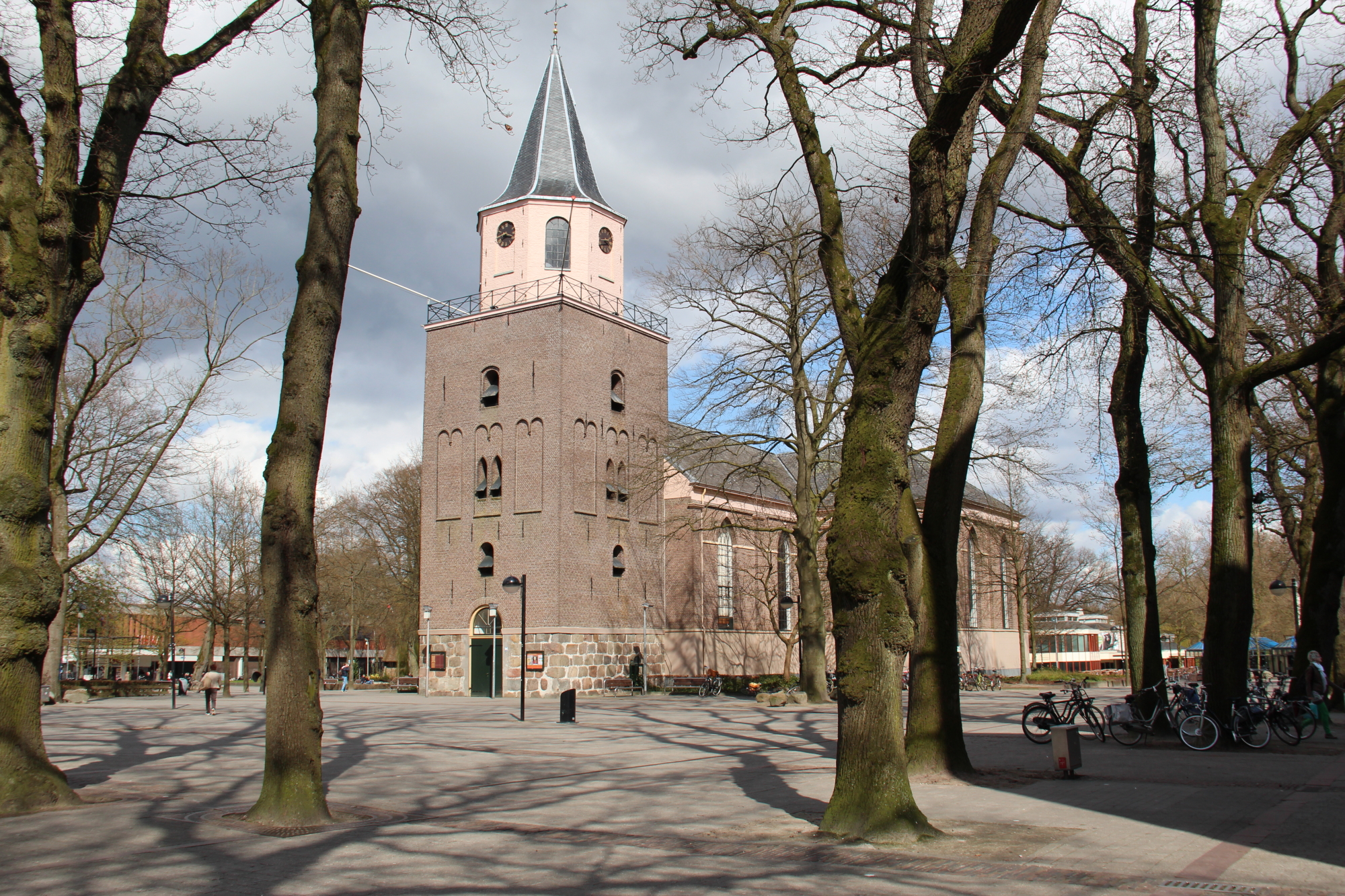 Emmen, church: Grote of Pancratiuskerk